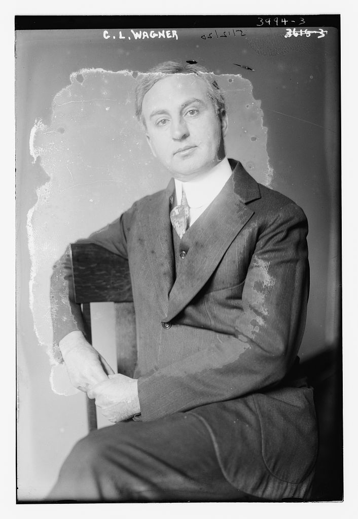 Bain News Service,, publisher. C.L. Wagner (1869 -1956) [between ca. 1915 and ca. 1920] 1 negative : glass ; 5 x 7 in. or smaller. Notes: Title from unverified data provided by the Bain News Service on the negatives or caption cards. Forms part of: George Grantham Bain Collection (Library of Congress). Format: Glass negatives. Repository: Library of Congress, Prints and Photographs Division, Washington, D.C. 20540 USA, General information about the Bain Collection is available at Higher resolution image is available (Persistent URL): Call Number: LC-B2- 3994-3